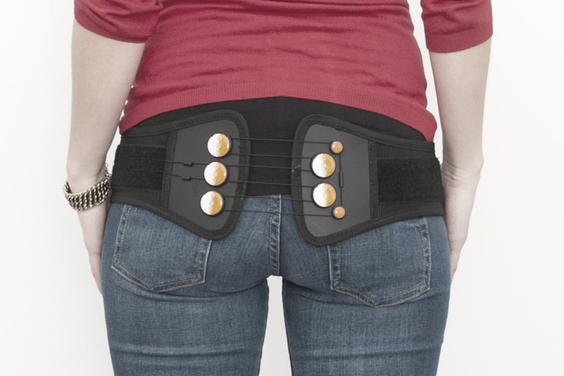 Beckenringorthese